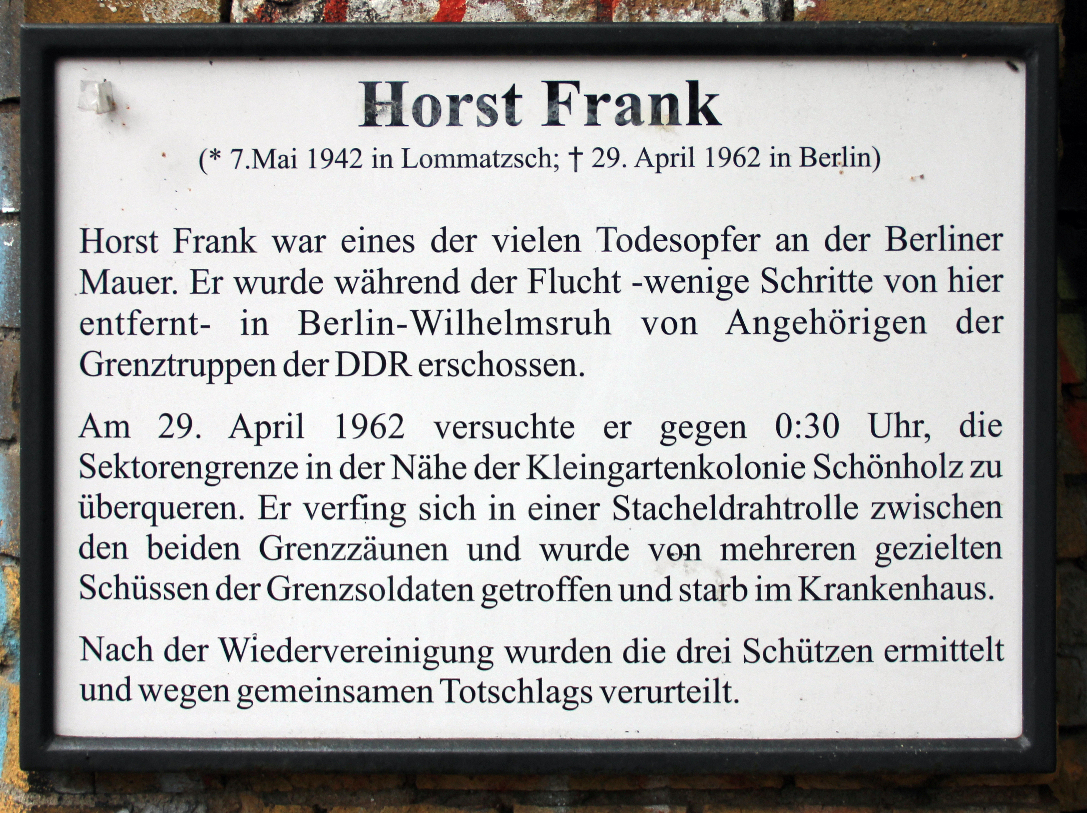 Memorial plaque, Horst Frank, Klemkestraße, Berlin-Reinickendorf, Deutschland